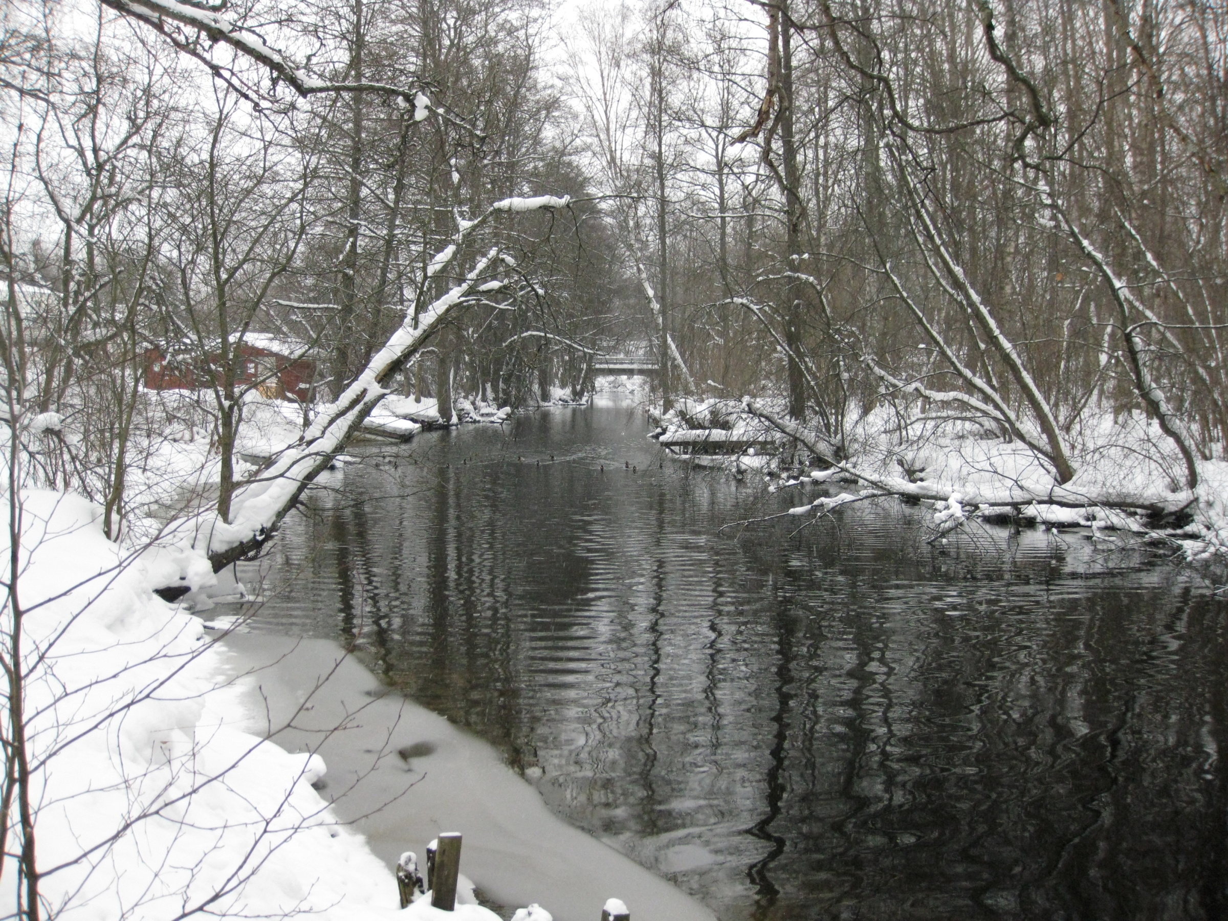 Gudö river, southeast Stockholm, bridge of road 260 seen from inlet.